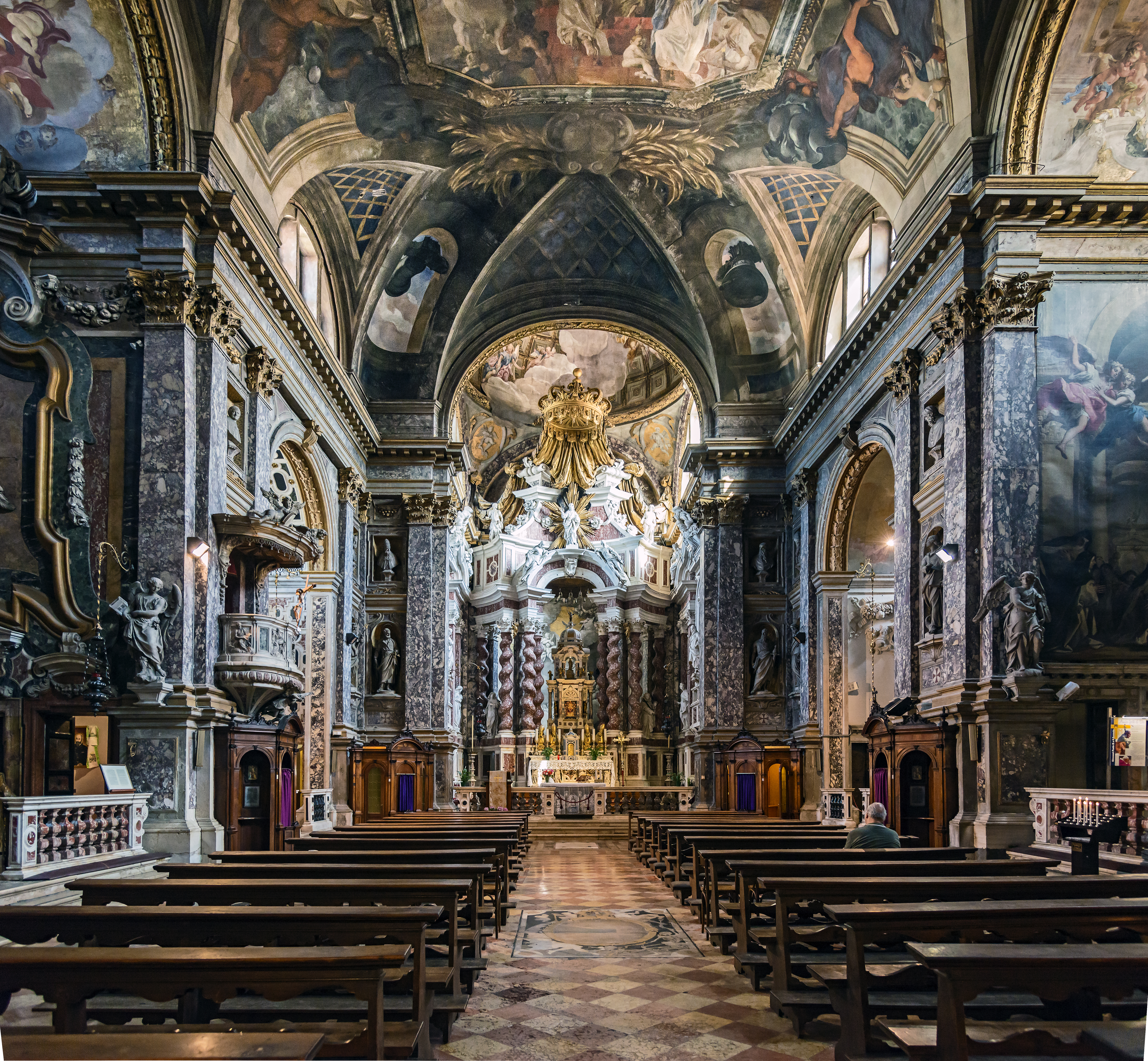 Church Santa Maria degli Scalzi Venice. General view.